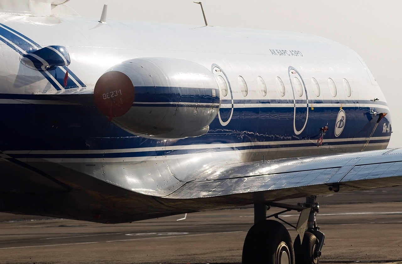 In 2010, the company "Bugulma Aviation Enterprise" was renamed "Ak Bars Aero"